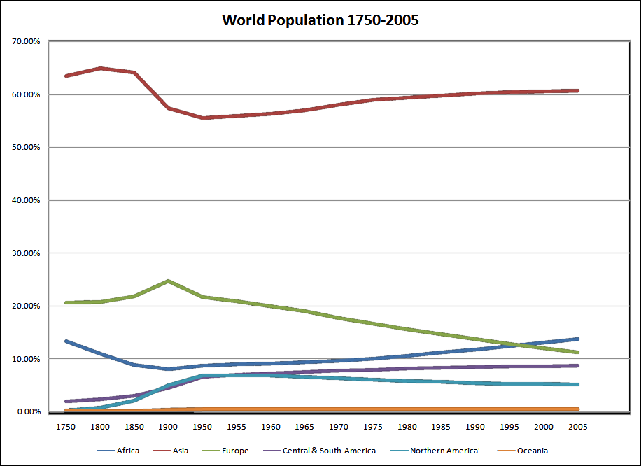 Created by Marcelo Garza from Data on Wikipedia's "World Population" article.